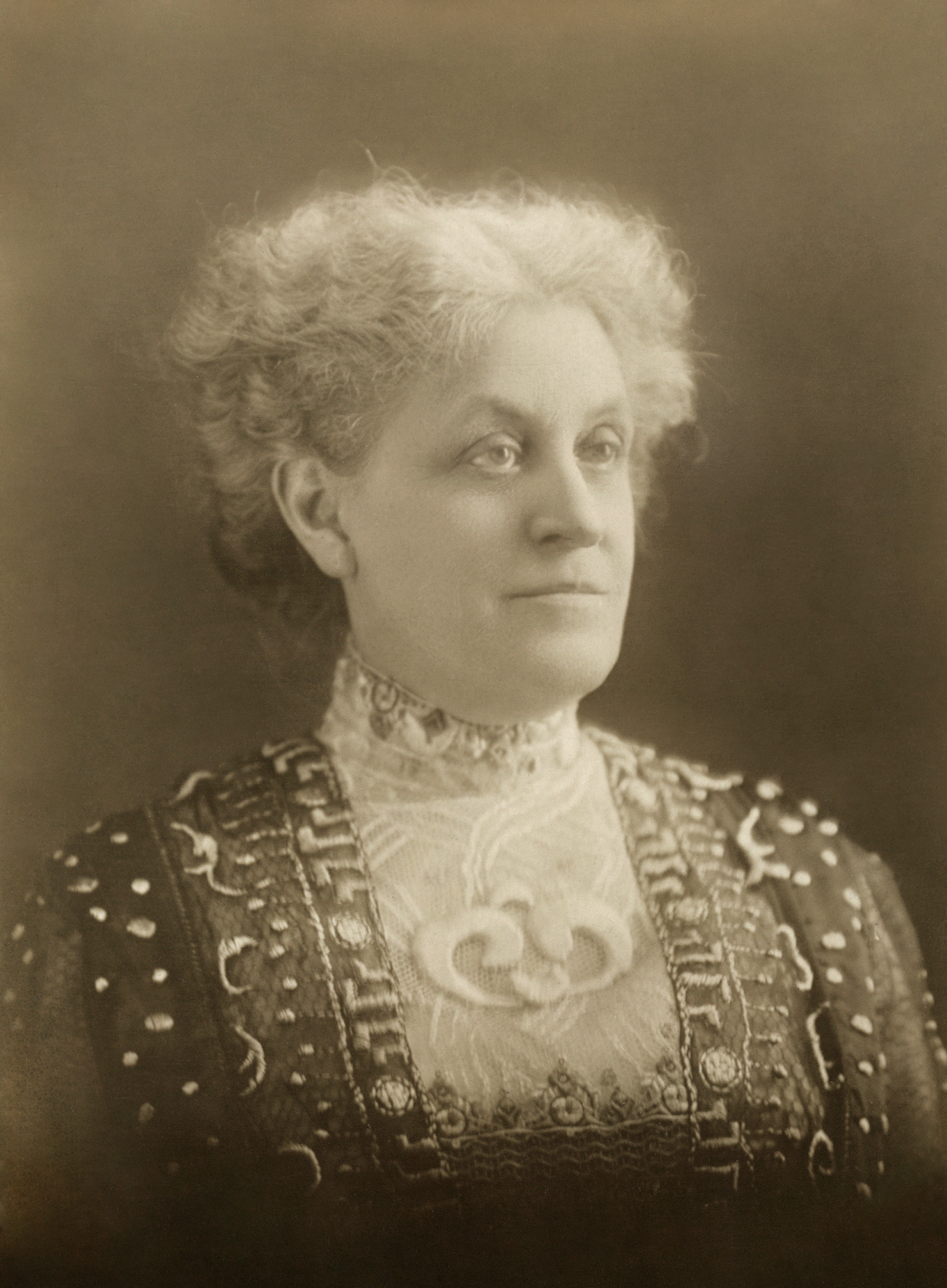 "Mrs. Carrie Chapman Catt, Speaker at Continental Hall." Verso is stamped "Joint Suffrage Procession Committee, 1420 F Street Northwest, Washington, D.C." The original photograph was about 4x5.5" (10x14 cm). However, after cropping, the dimensions as seen are about 4x5" (10x13cm).[1]